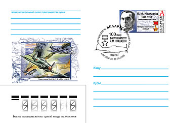 Stamp of Belarus. 2005